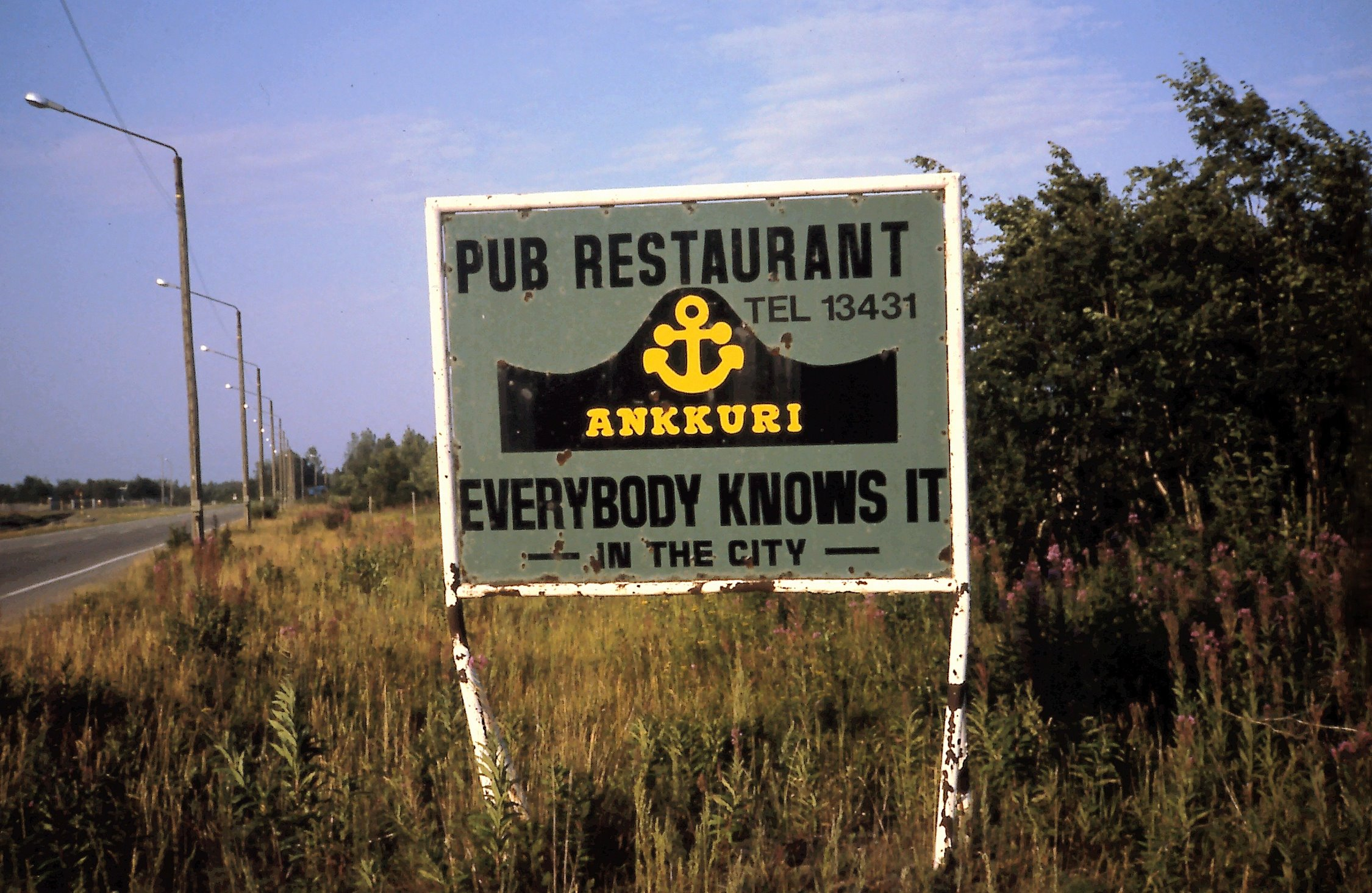 An old billboard of restaurant Ankkuri along the regional road 920 in Kemi, Finland.